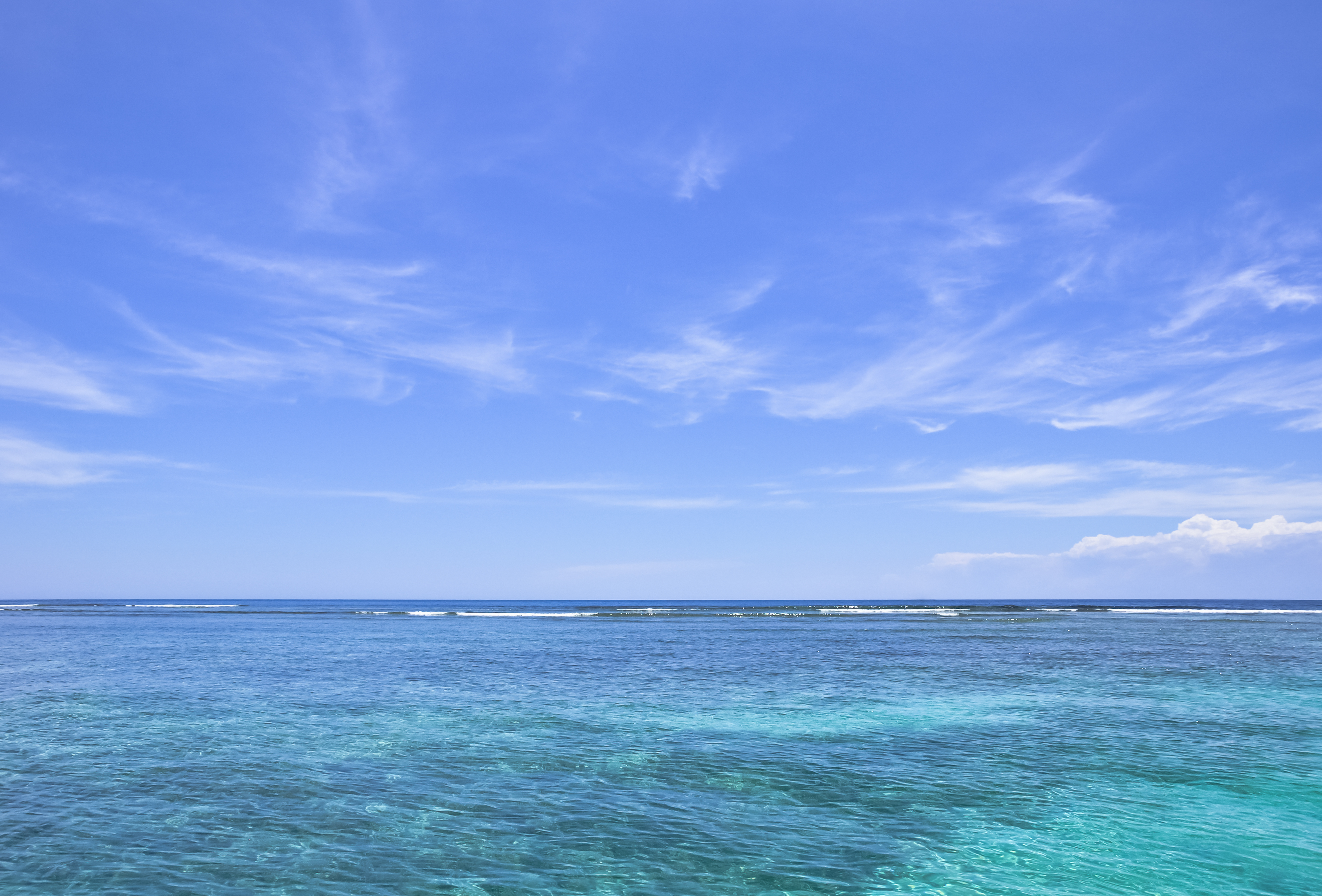 The crystallyne waters of the Caribbean Sea, on a sunny day. Photo taken in Morrocoy national park, Venezuela.